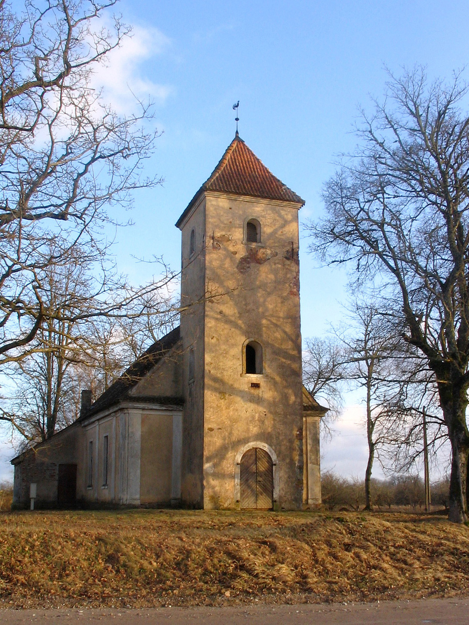 Klostere St. Peter evangelic lutheran church